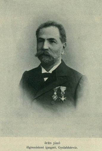 Portrait of Ávéd Jákó